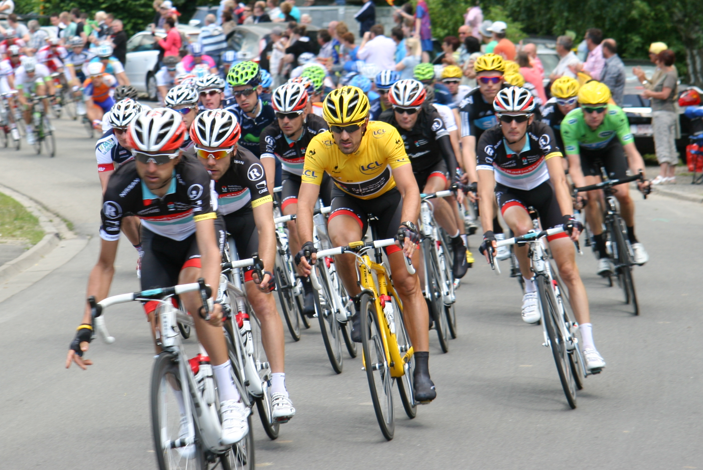 99th Tour de France stage 1 in Hotton (Belgium) Fabian Cancellara in the yellow shirt